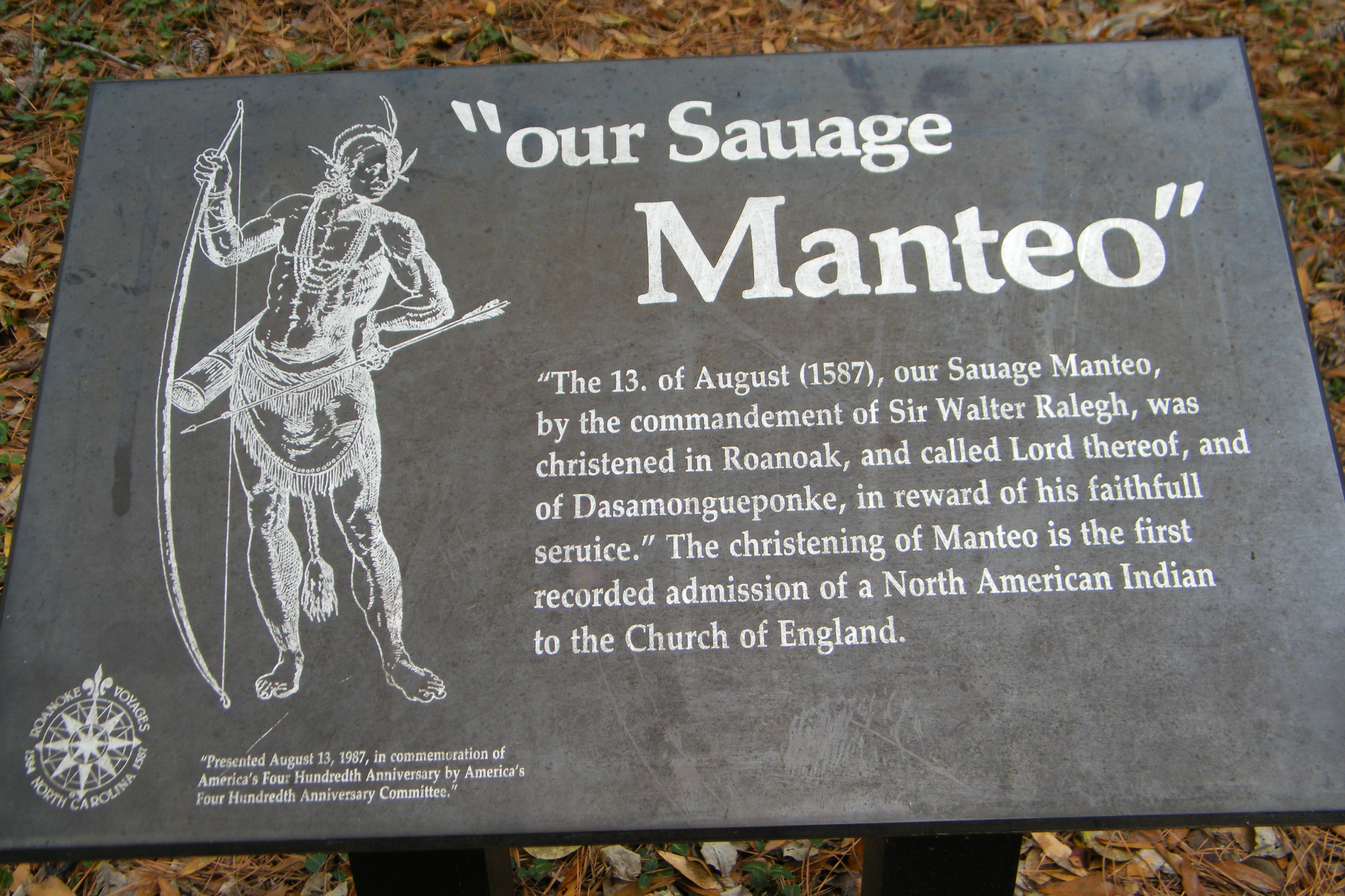 A plaque to commemorate the first Indigenous person, Manteo, who was converted to Christianity at the Roanoke Colony. The drawing utilized on the plaque was drawn by John White. The quoted text is also from the White text (Page: 768), written in 1587.